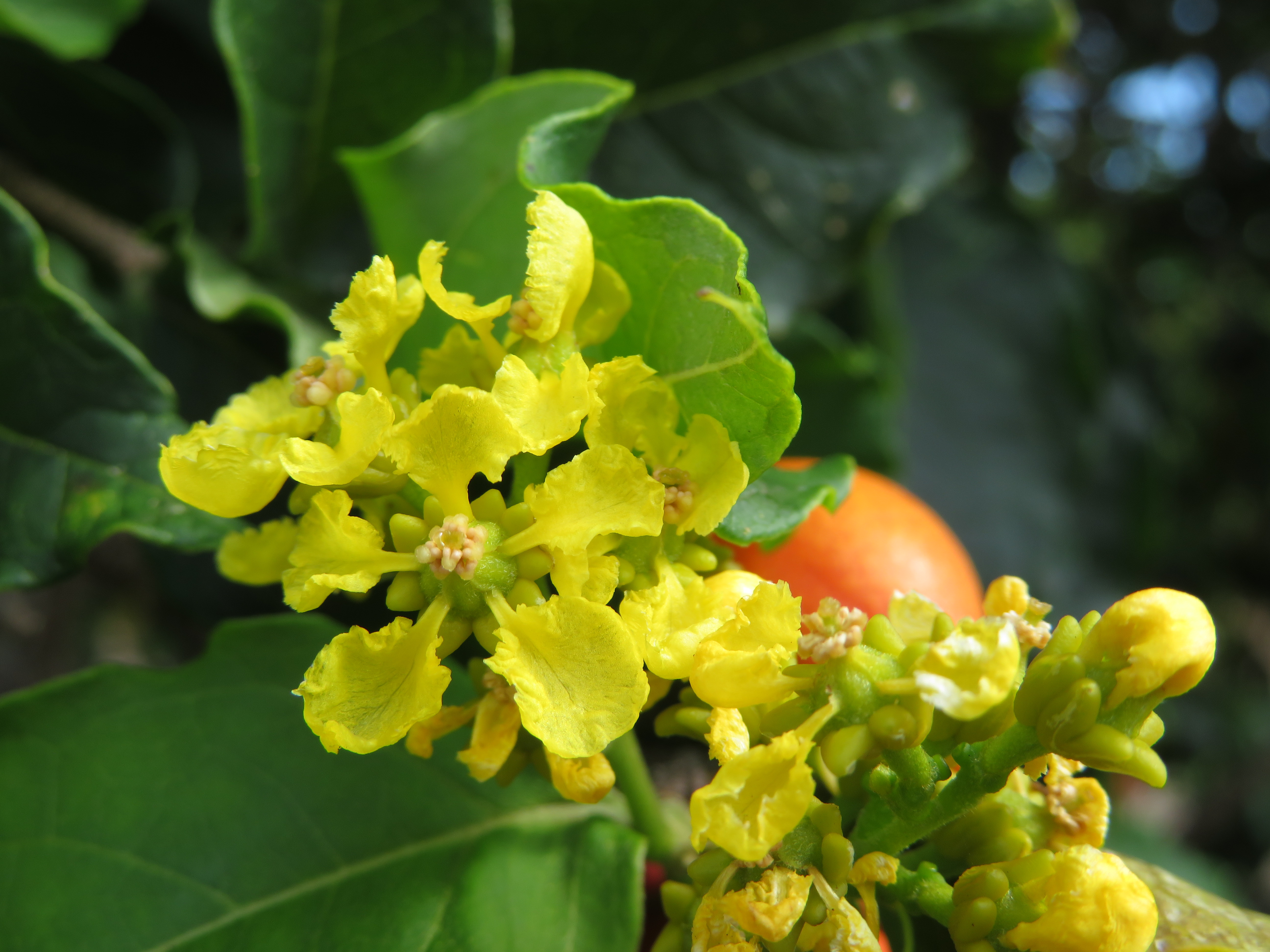 Bunchosia argentea (Peanut butter fruit) Flowers leaves at CTAHR Urban Garden Center Pearl City, Oahu, Hawaii. September 13, 2017 #170913-0184 - Image Use Policy